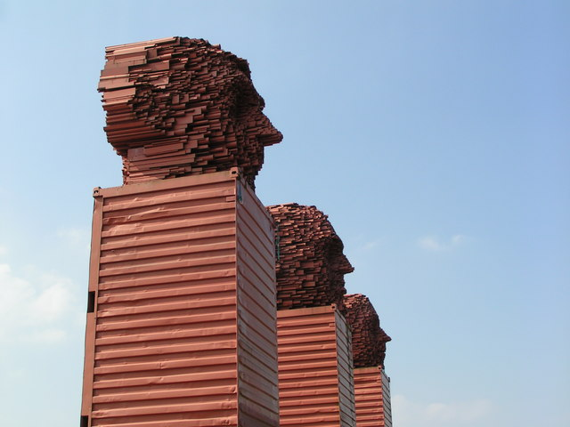 "The Big Heids" Travellers along the M8/A8 will recognise this sculpture by David Mach. It is a tribute to the Steel Industry which once existed in Lanarkshire